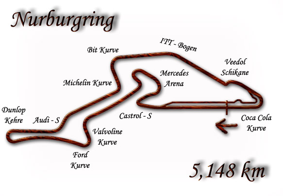 Diagram of the Nurburgring Circuit following changes made in 2003. Used for European Grands Prix from 2003 to 2006, and German Grand Prix at 2007.